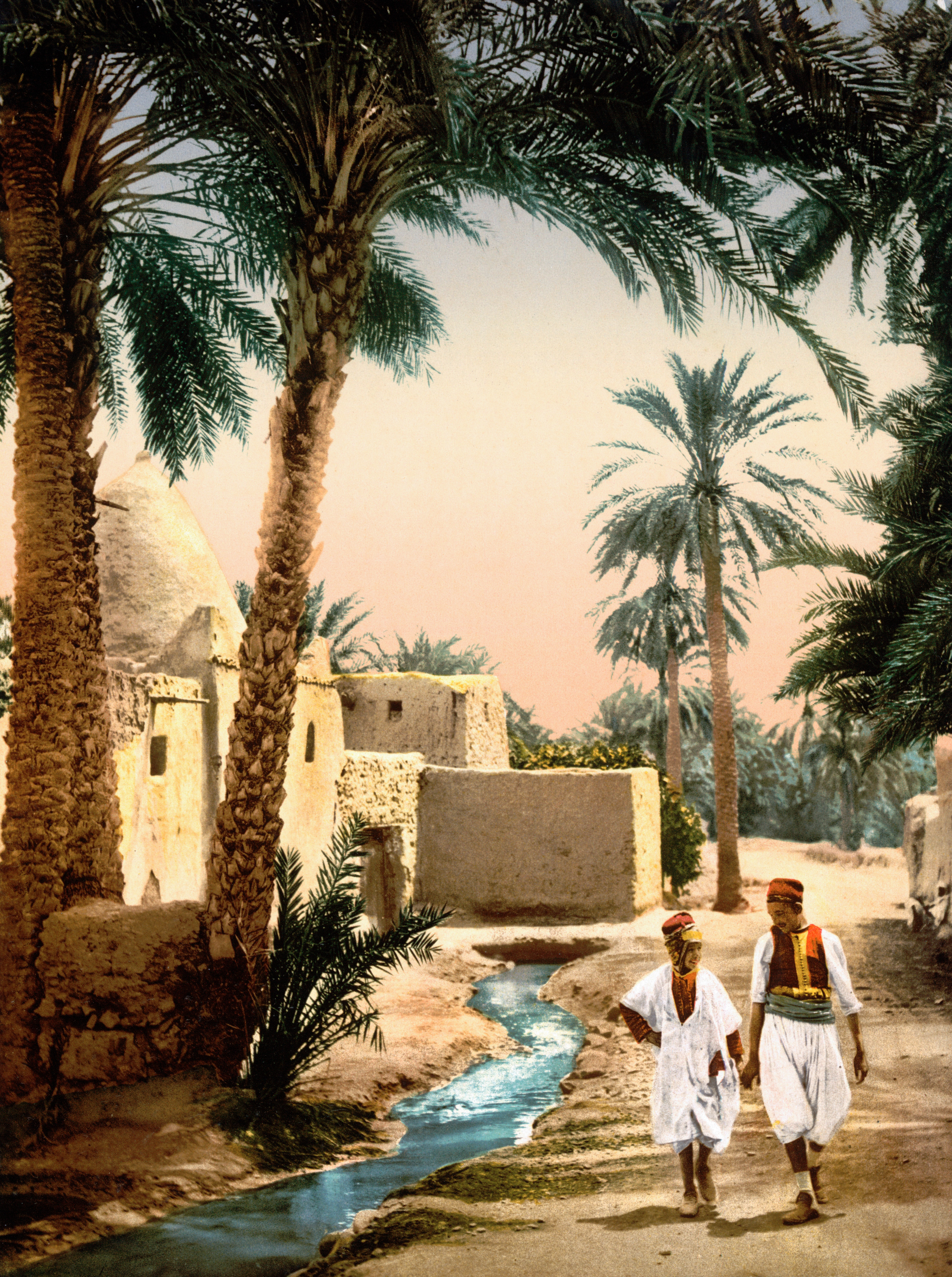 Street in the old town of Biskra in 1899 (Algeria).